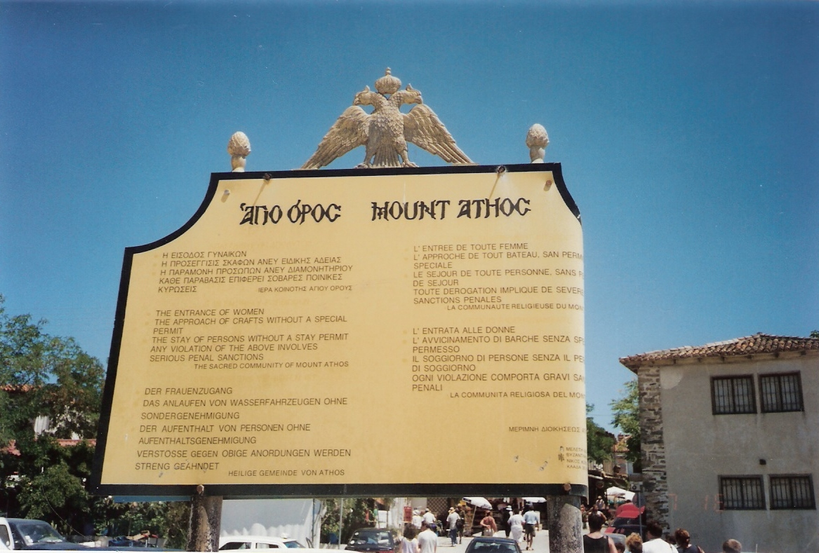 order forbids women to enter mount athos